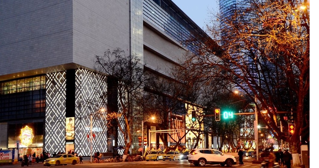 Nightscape of Deji plaza in Xuanwu District of Nanjing, Jiangsu, China.